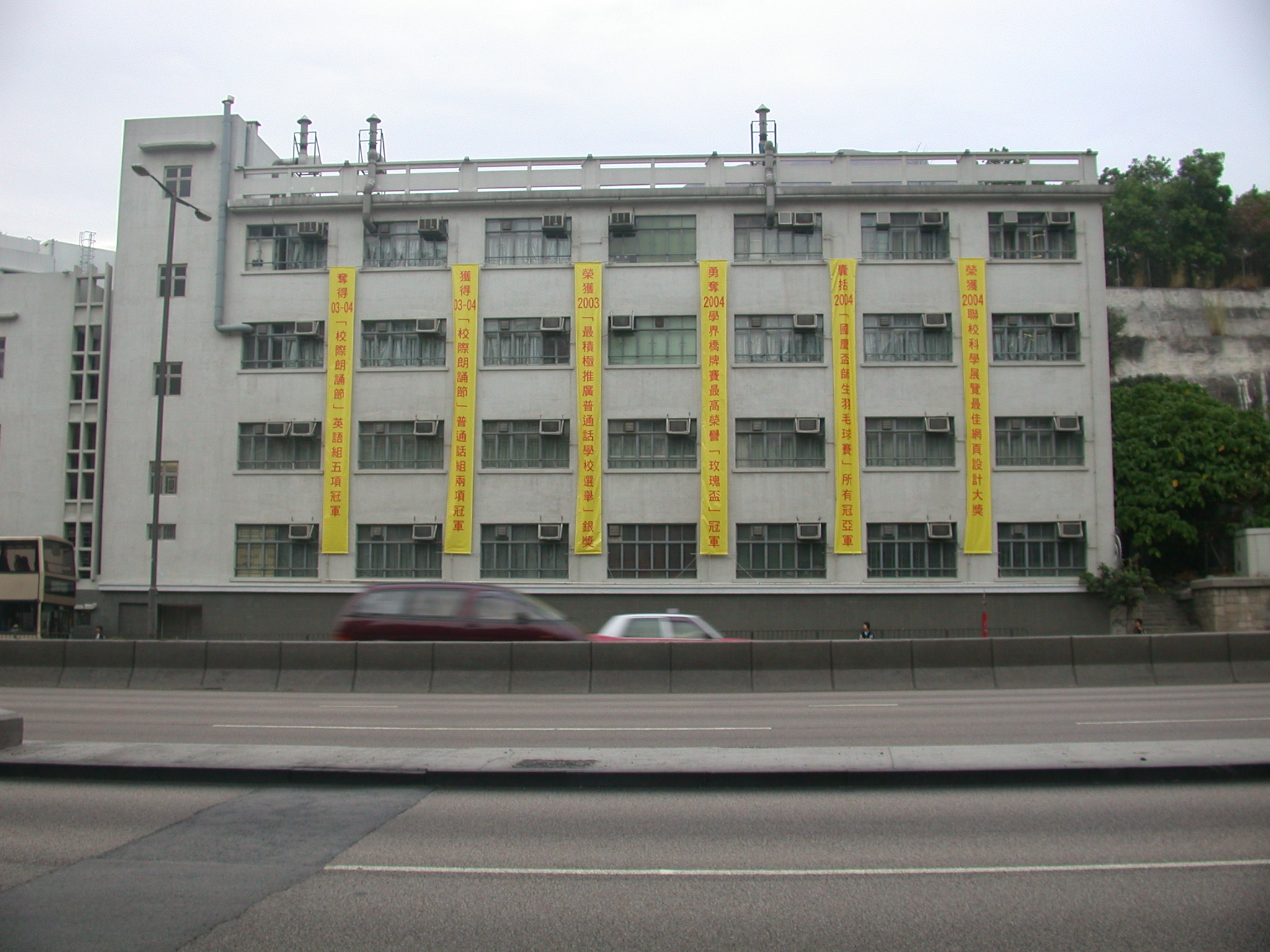 Hong Kong St. Joseph's Anglo-Chinese School Banner Photo